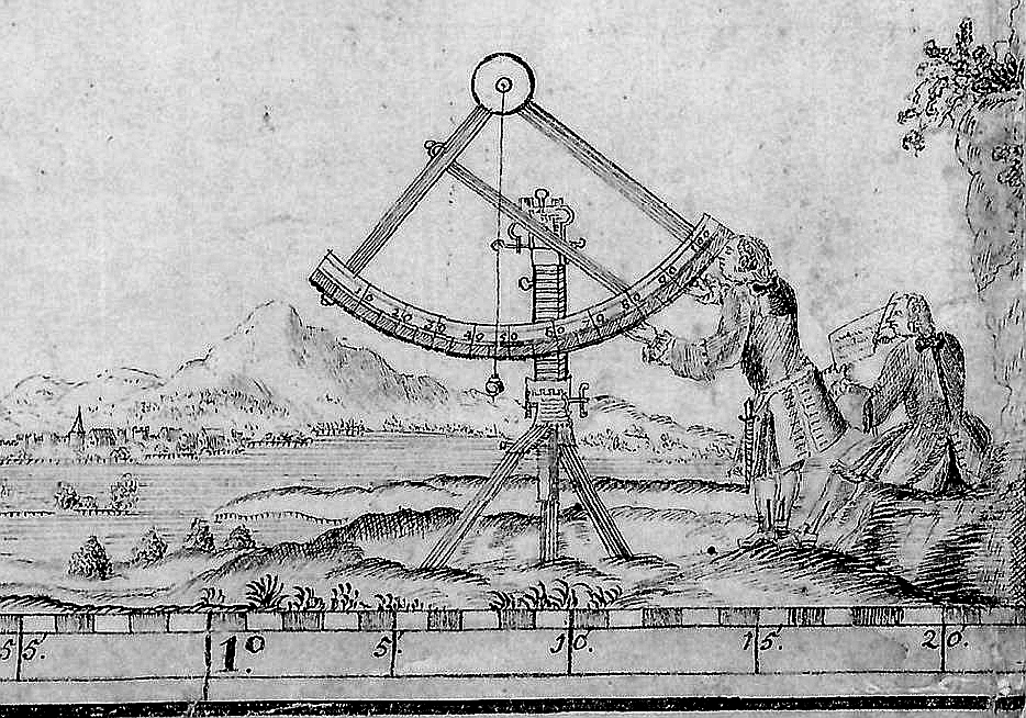 Részlet Mikoviny Sámuel A Dunán inneni kerület térképéről (1739)